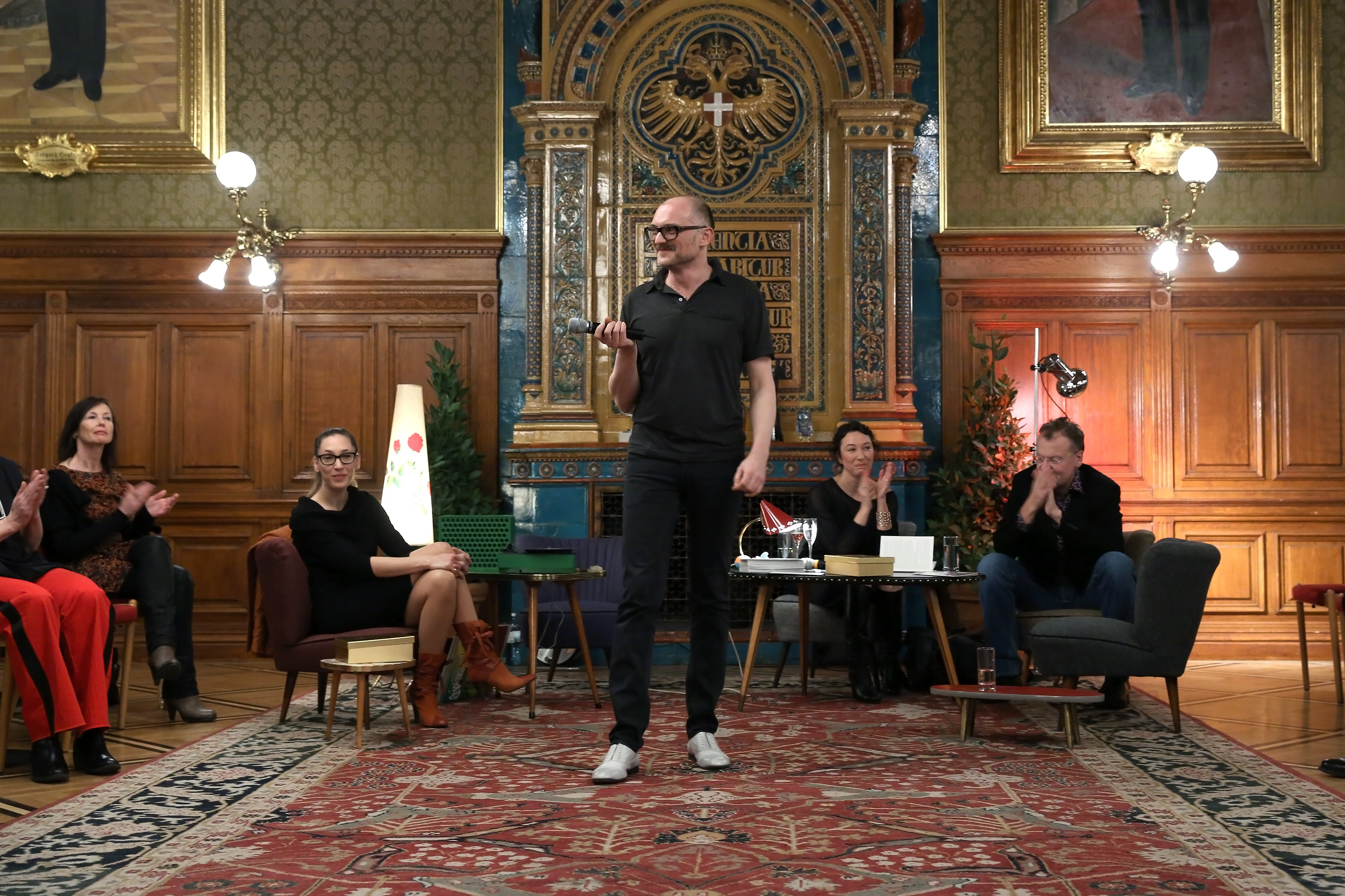 Markus Schleinzer presenting the "Abend der Nominierten" ("Evening of the Nominees") at Rathaus, Vienna on the day before the Austrian Film Awards 2014 (Vienna, Austria).